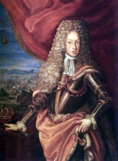 Portrait of Joseph I, Holy Roman Emperor (1678-1711)